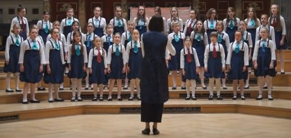 65th Anniversary Concert, 2015 Junior group